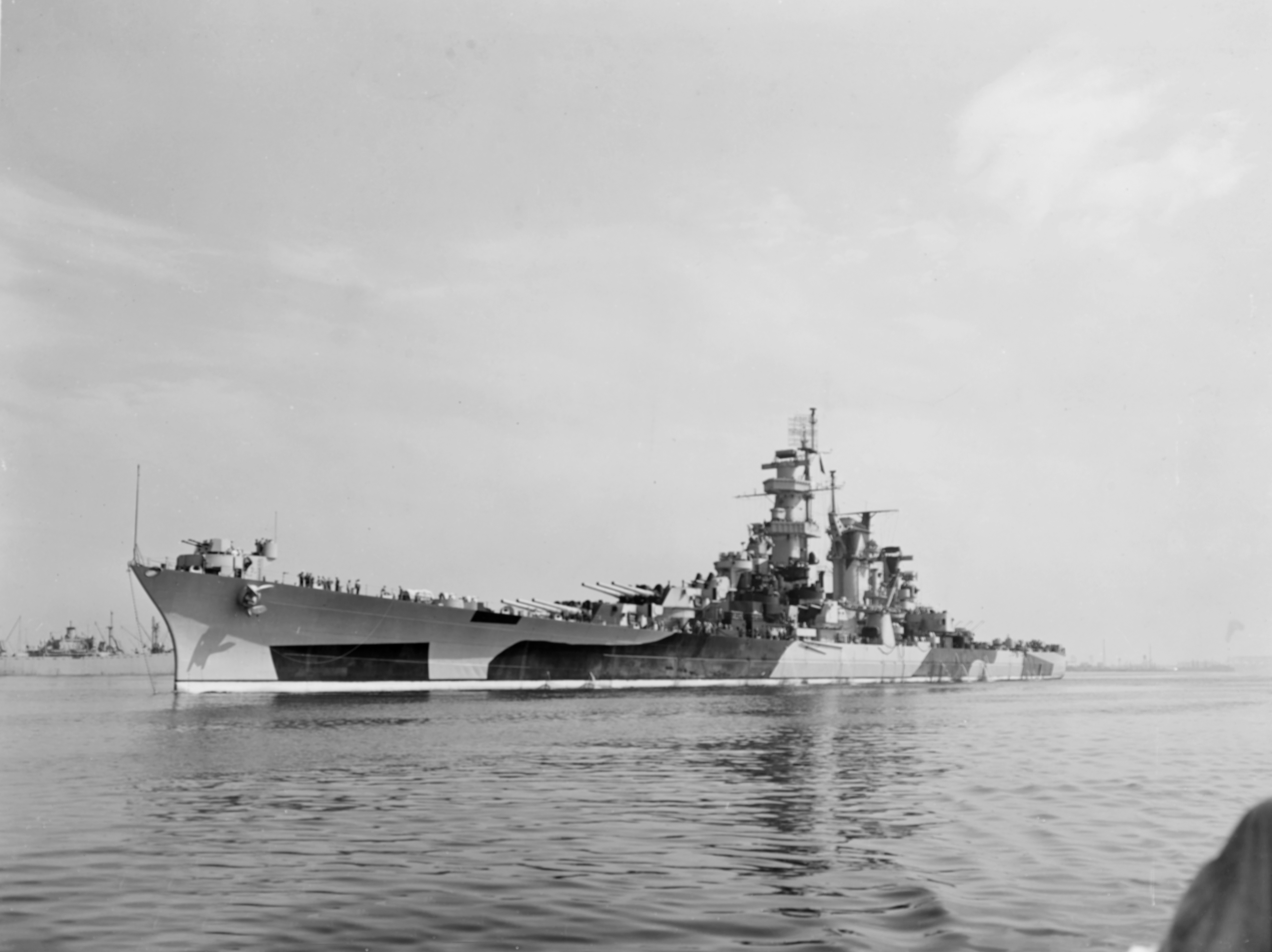 The U.S. Navy large cruiser USS Alaska (CB-1) photographed on 30 July 1944 off the Philadelphia Navy Yard, Pennsylvania (USA).